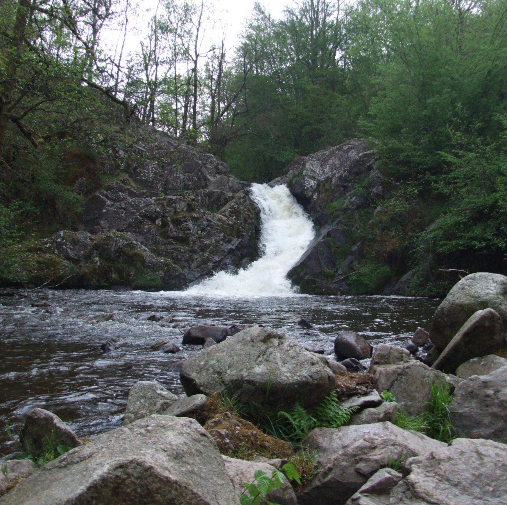 Morvan, Nievre, Burgundy, FRANCE